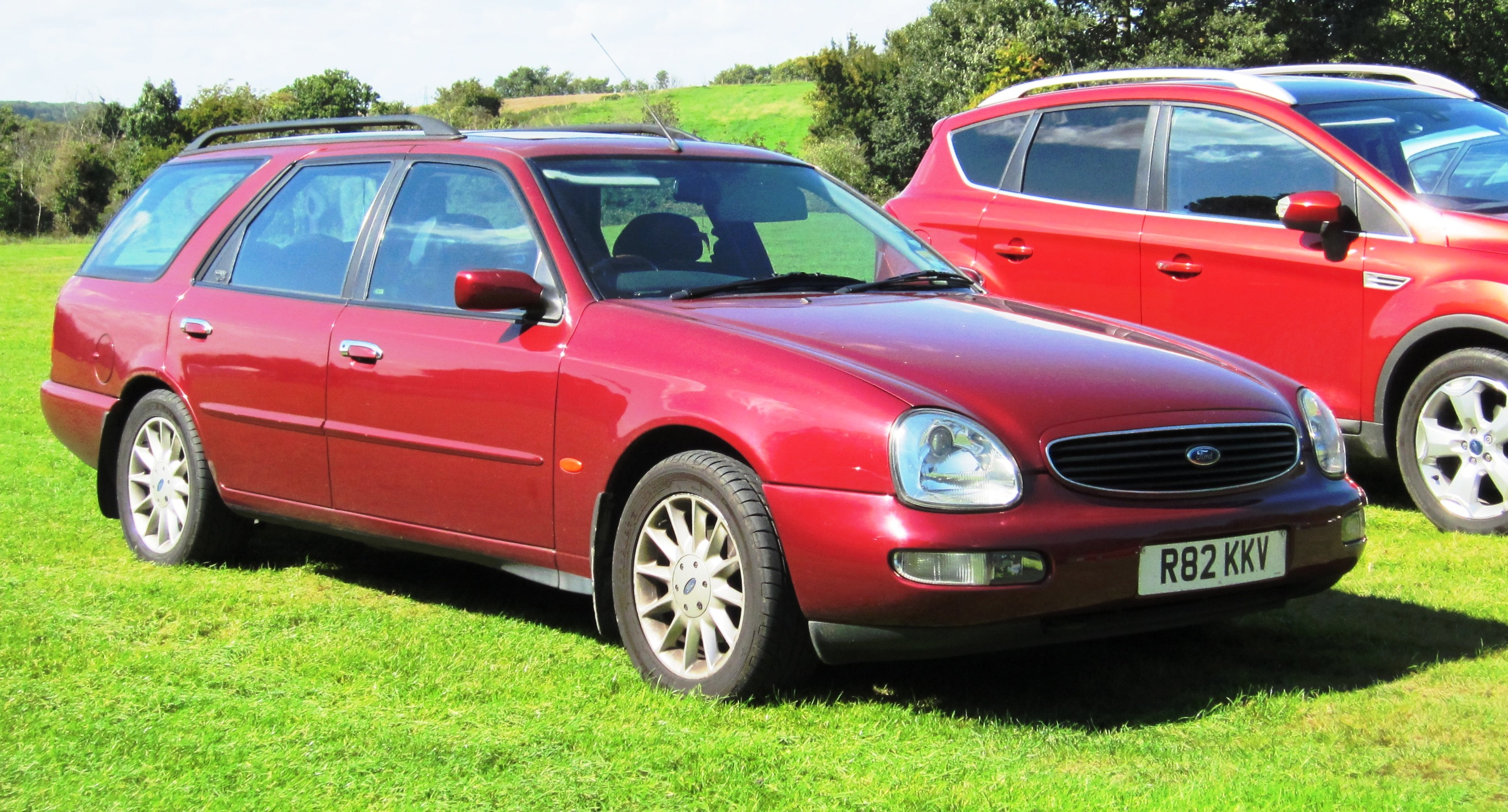 Ford Scorpio MkII estate